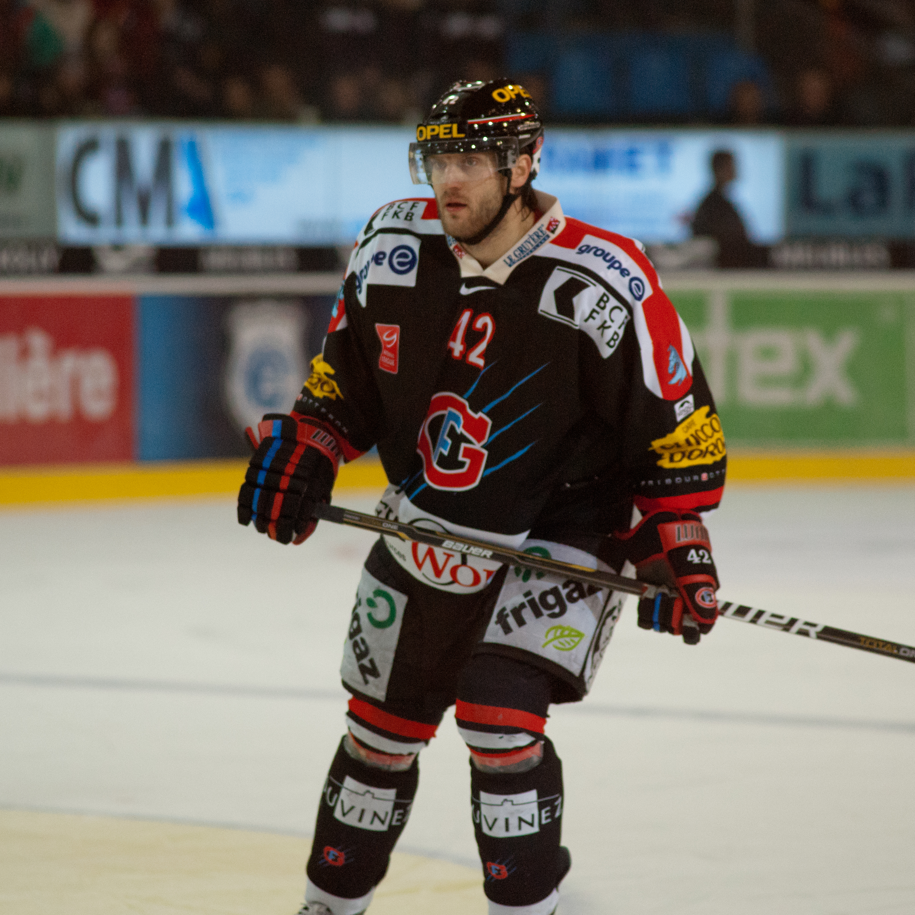 The making of this document was supported by Wikimedia CH. (Submit your project!) For all the files concerned, please see the category Supported by Wikimedia CH. Fribourg-Gotteron vs. HC Bienne, 25.11.2011